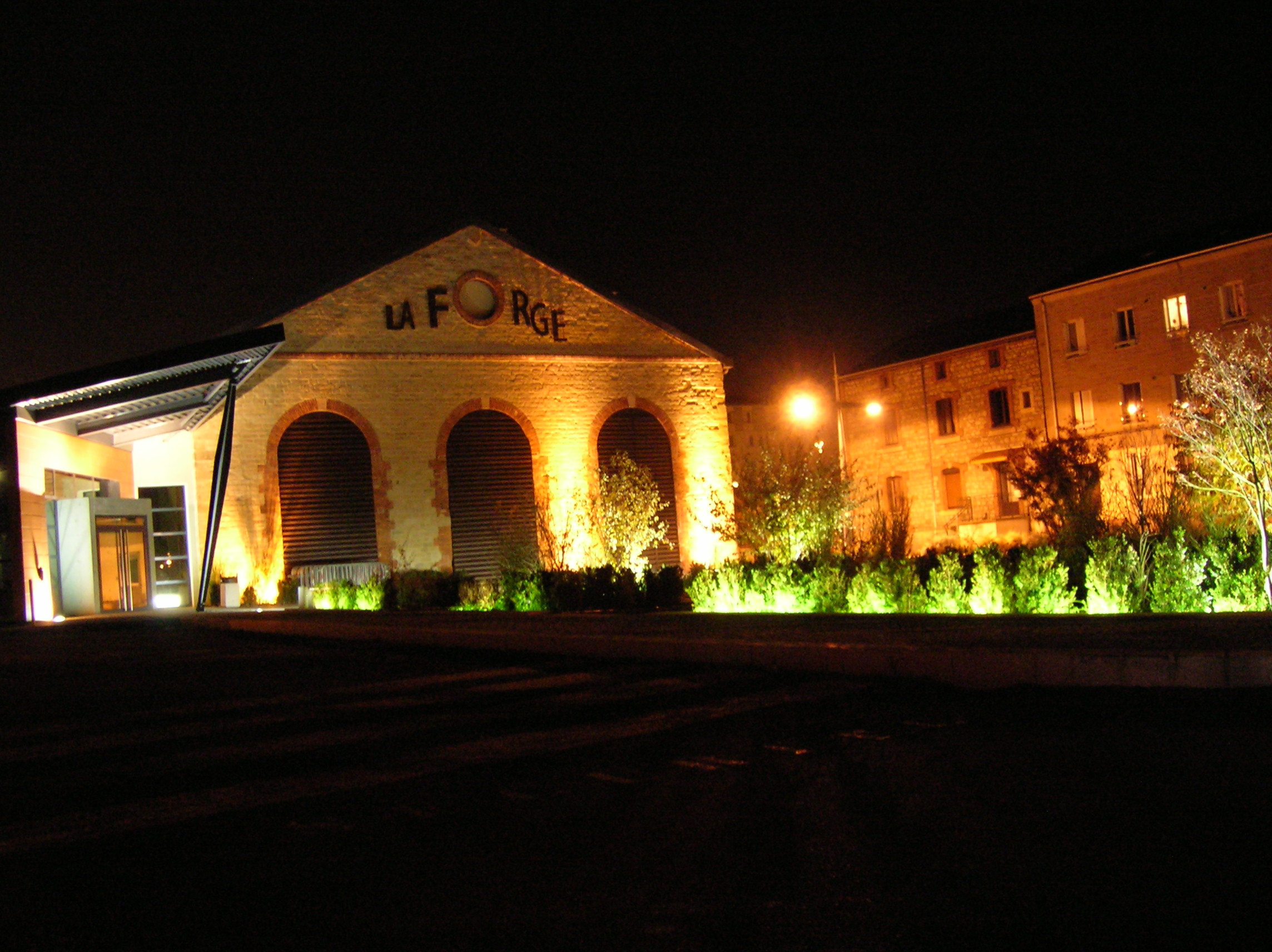 La Forge, former metallurgy factory, now a concert hall, in Le Chambon-Feugerolles (Loire, France).